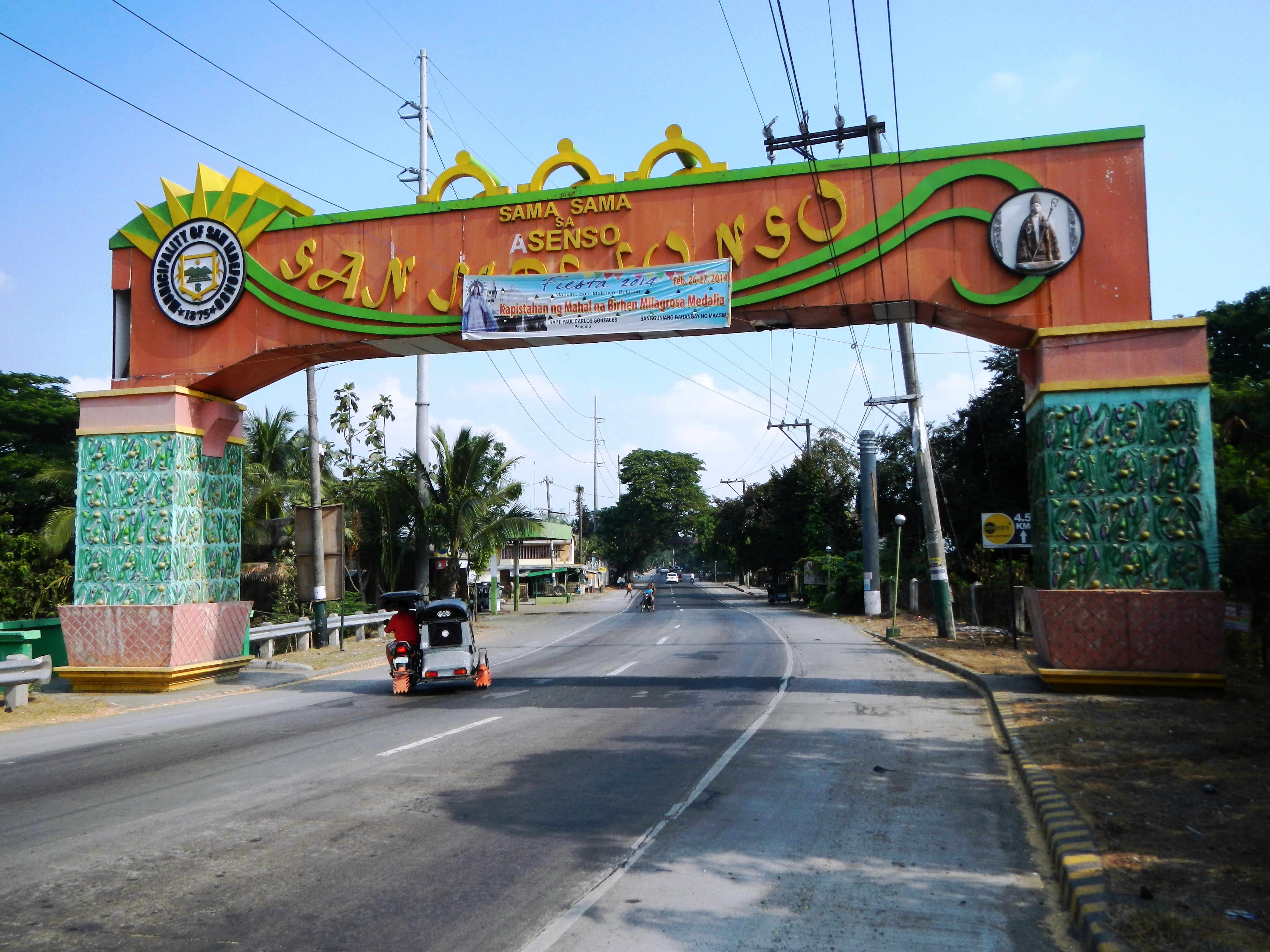 Welcome signs on Philippine roads (San Ildefonso, Bulacan) of San Ildefonso, Bulacan Bulacan Province (view photo from [1] Maasim Bridge 2 K0061+405.6, Barangay Maginao, Barangay Galas MaasimSan Rafael, Bulacan along Cagayan Valley Road in Dona Remedios Trinidad Highway of the Pan-Philippin Highway).